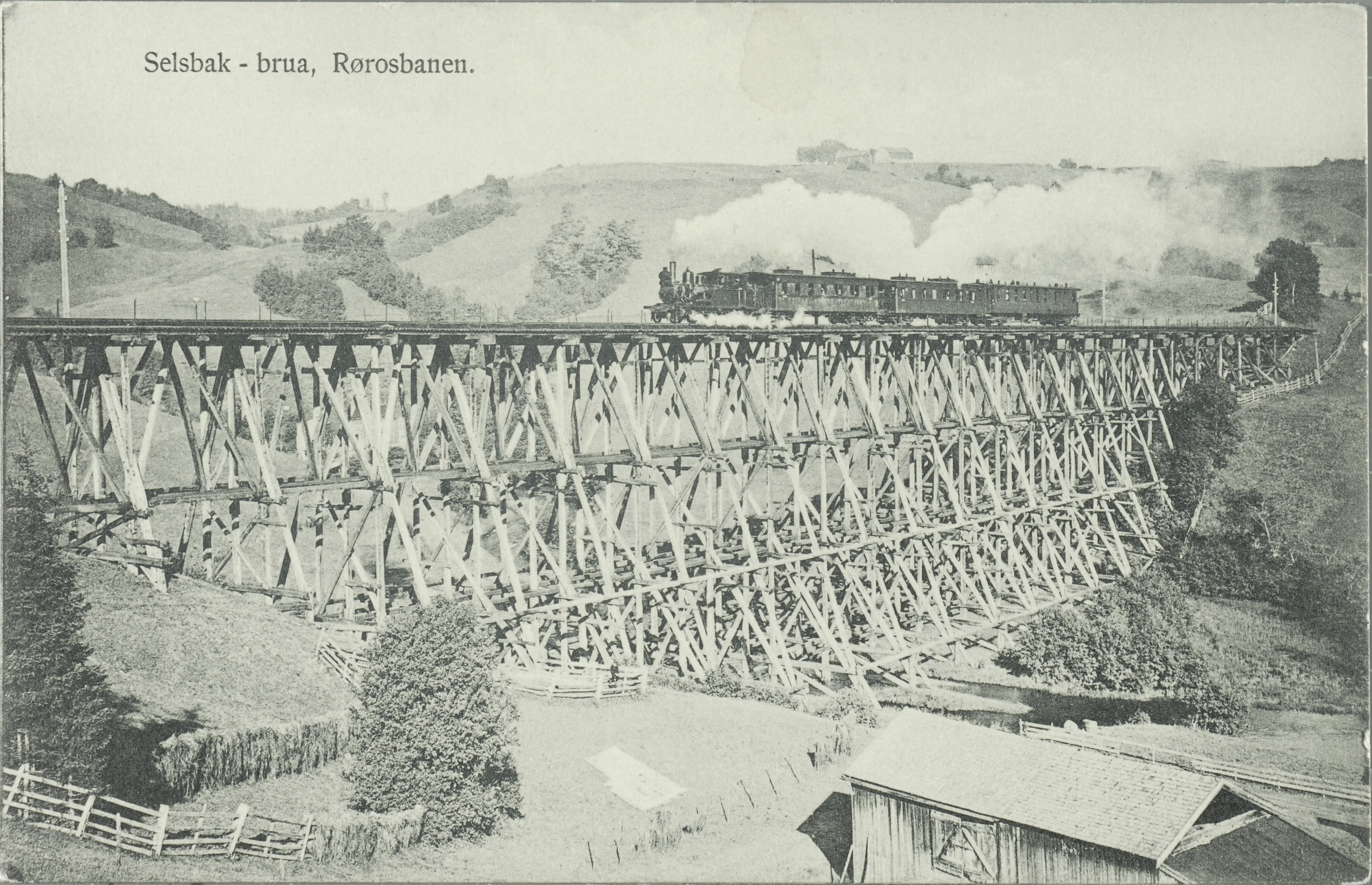 Selsbakk railway bridge in Trondheim, Norway